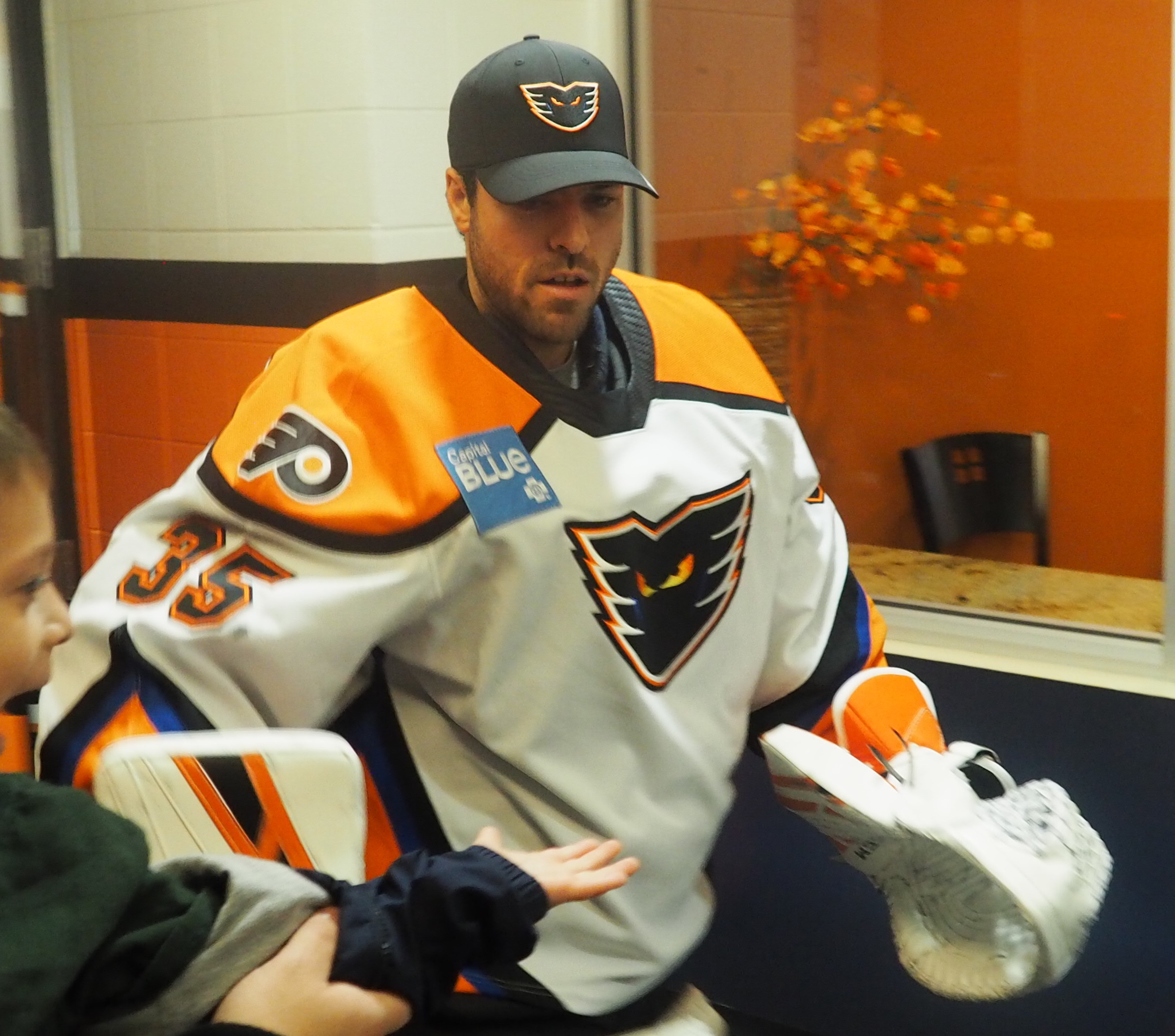 Jean-François Bérubé, goaltender with the Lehigh Valley Phantoms, at the PPL Center on November 1, 2019.